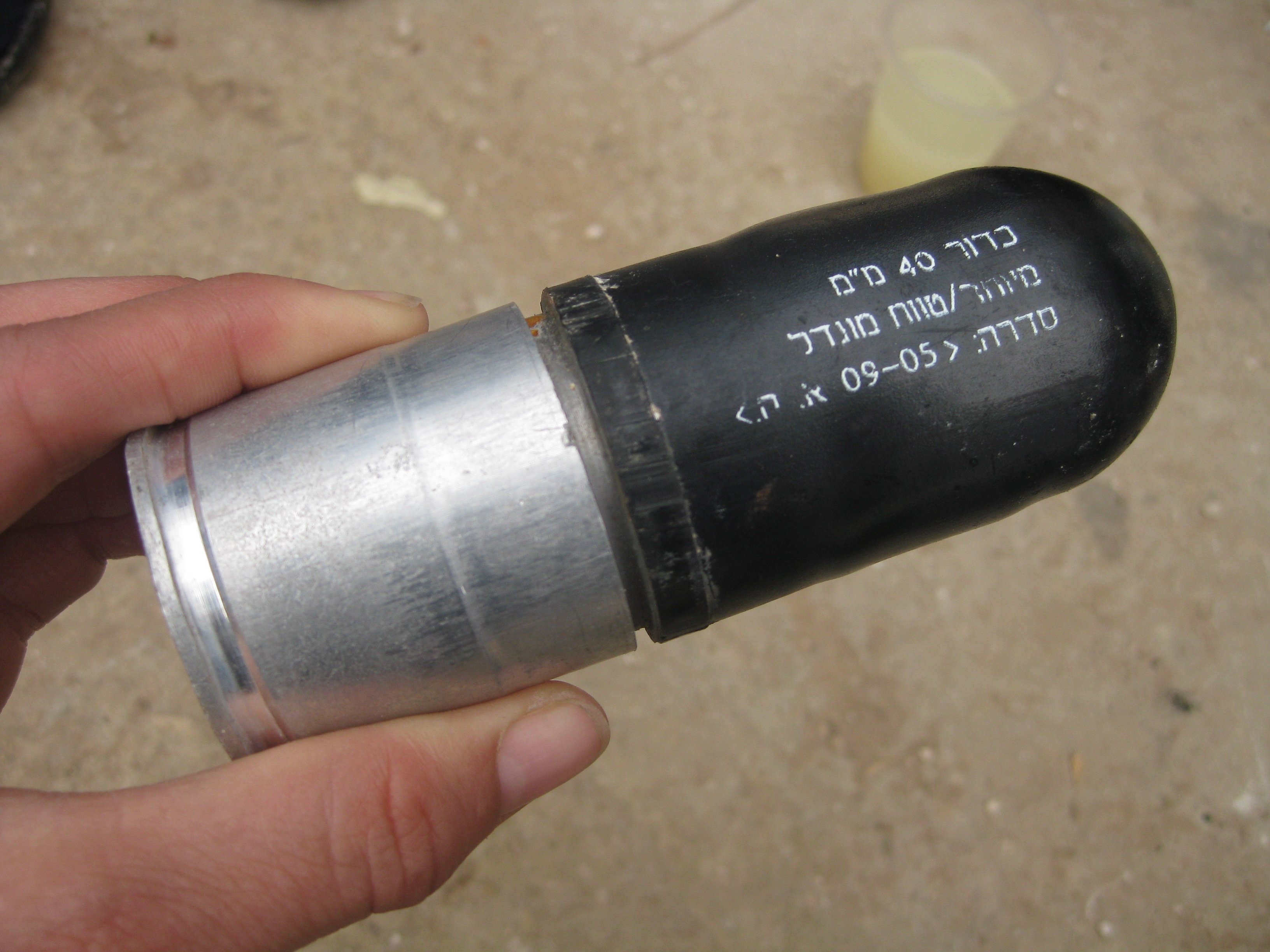 New tear gas called sarukh, can reach around 500 meters, when it is shot it is hard to see because of the velocity and there is no smoke coming from it before it hits. The soldiers have been targeting demonstrators and several people have been injured for example it has broken a persons leg. The picture shows it before it has been shot